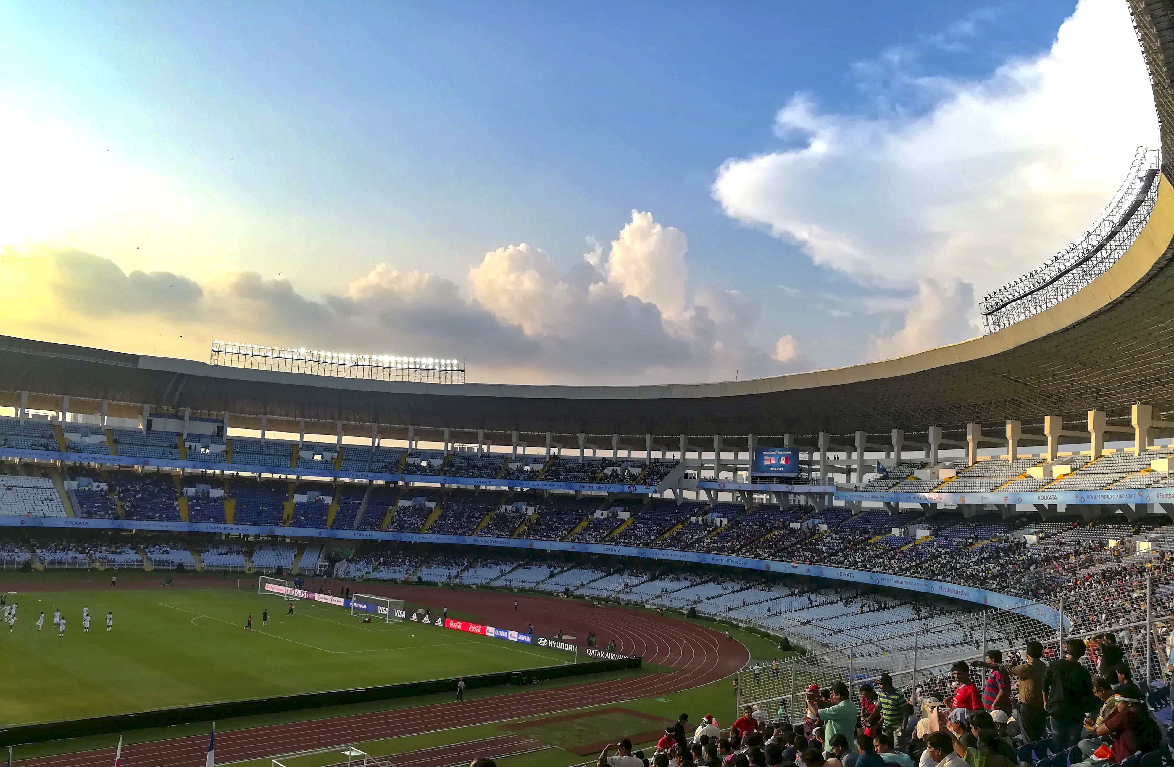 Salt Lake Stadium during FIFA U17 World Cup 2017 ... From the gallery ...